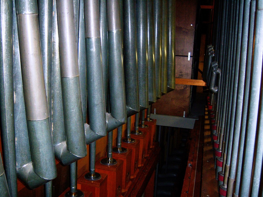 32' Contre Bombarde in the Pedal division